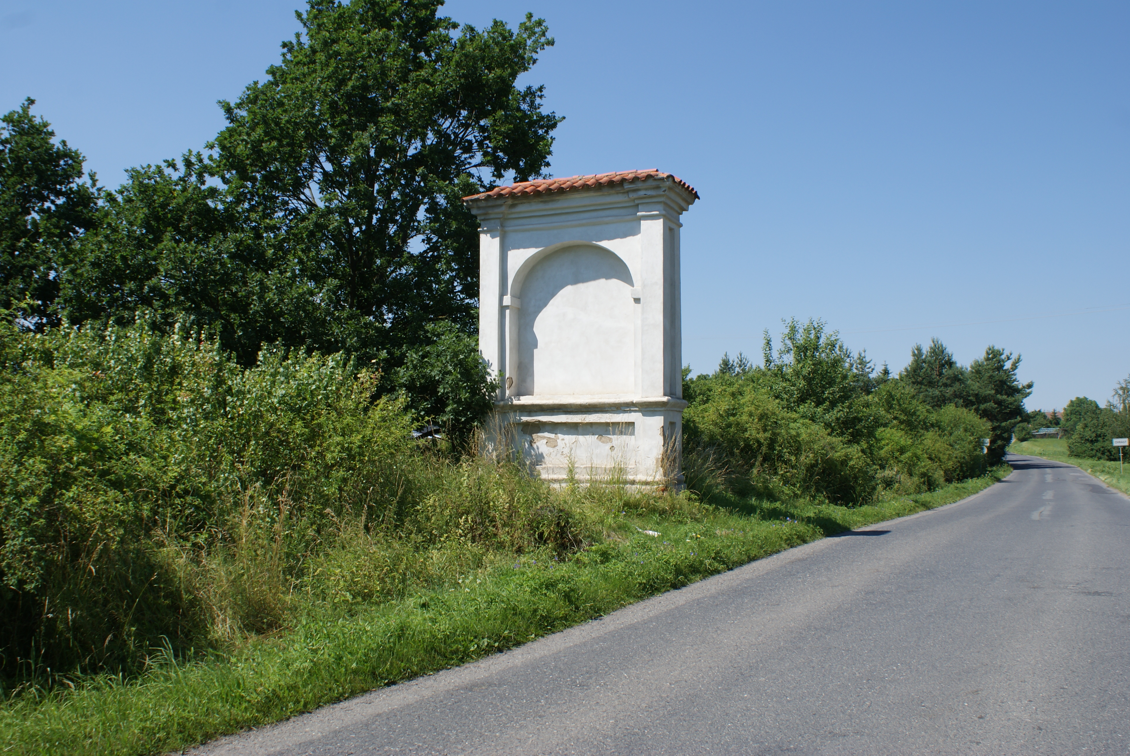 Chrást, a village in Příbram district, Czech Republic, a calvary